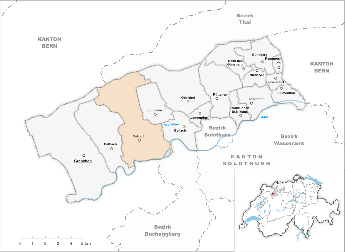 Municipality Selzach